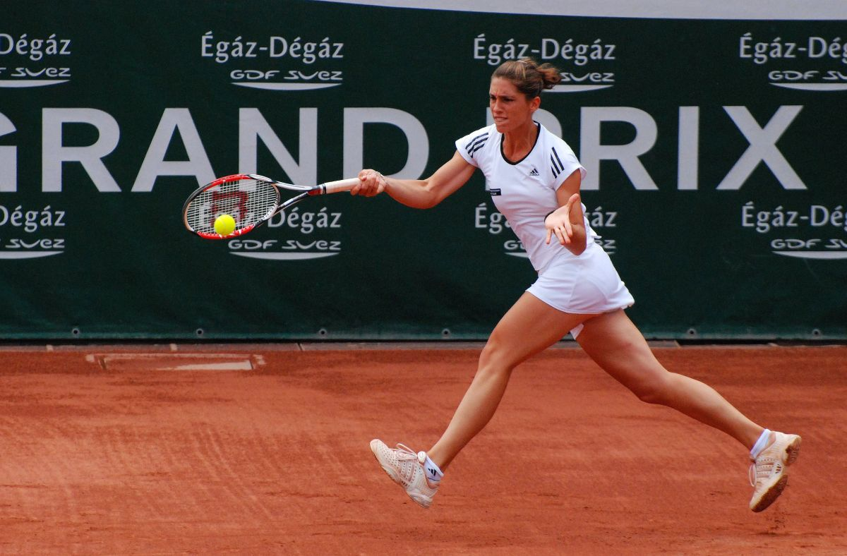 Andrea Petkovic hits a forehand in the first round of Budapest Grand Prix in 2009